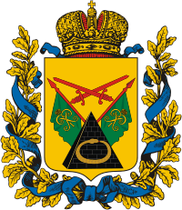 Coat of arms of Poltava Governorate, Russian Empire